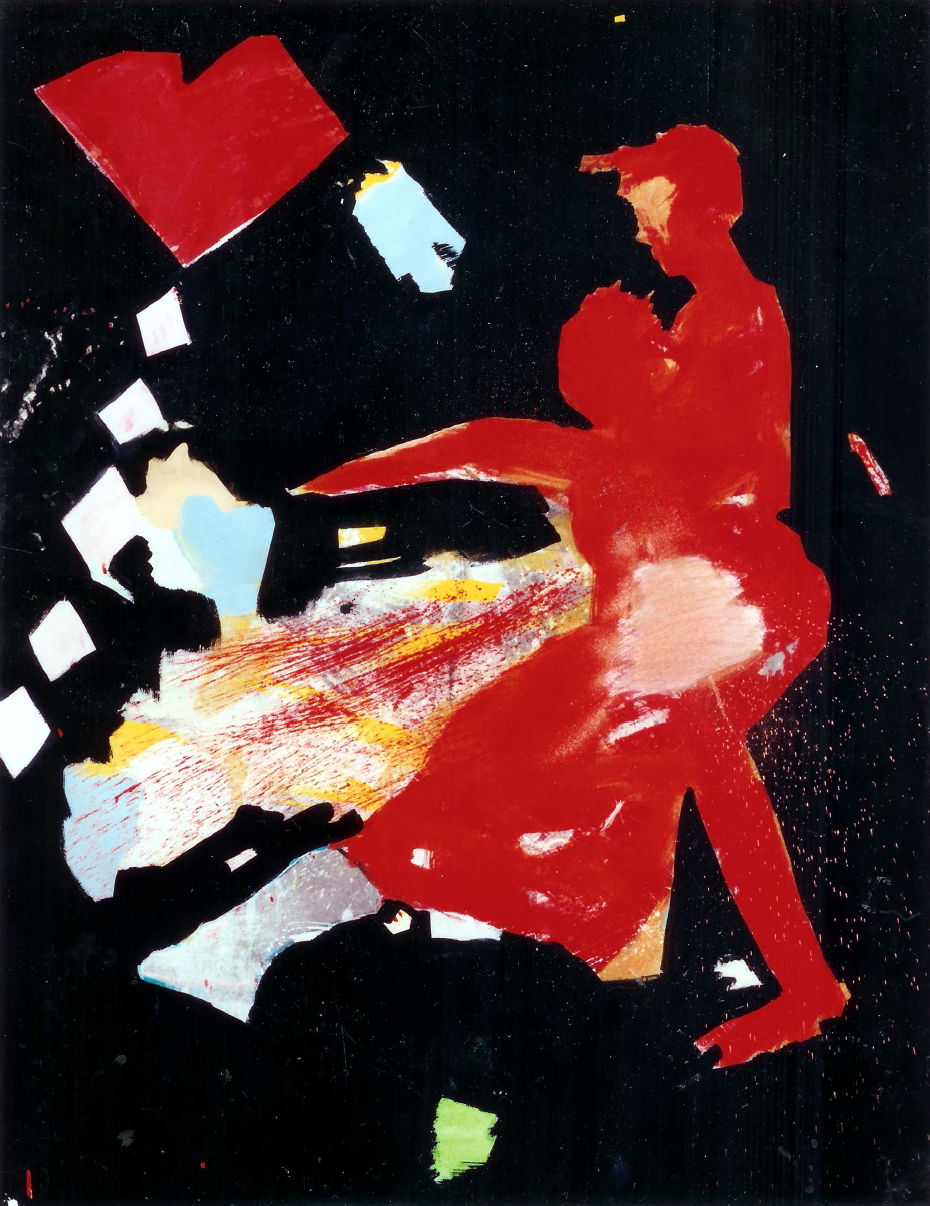 Rim-ram-rum Serie,_1988-98,_mixed_media_on_canvas,140x160cm